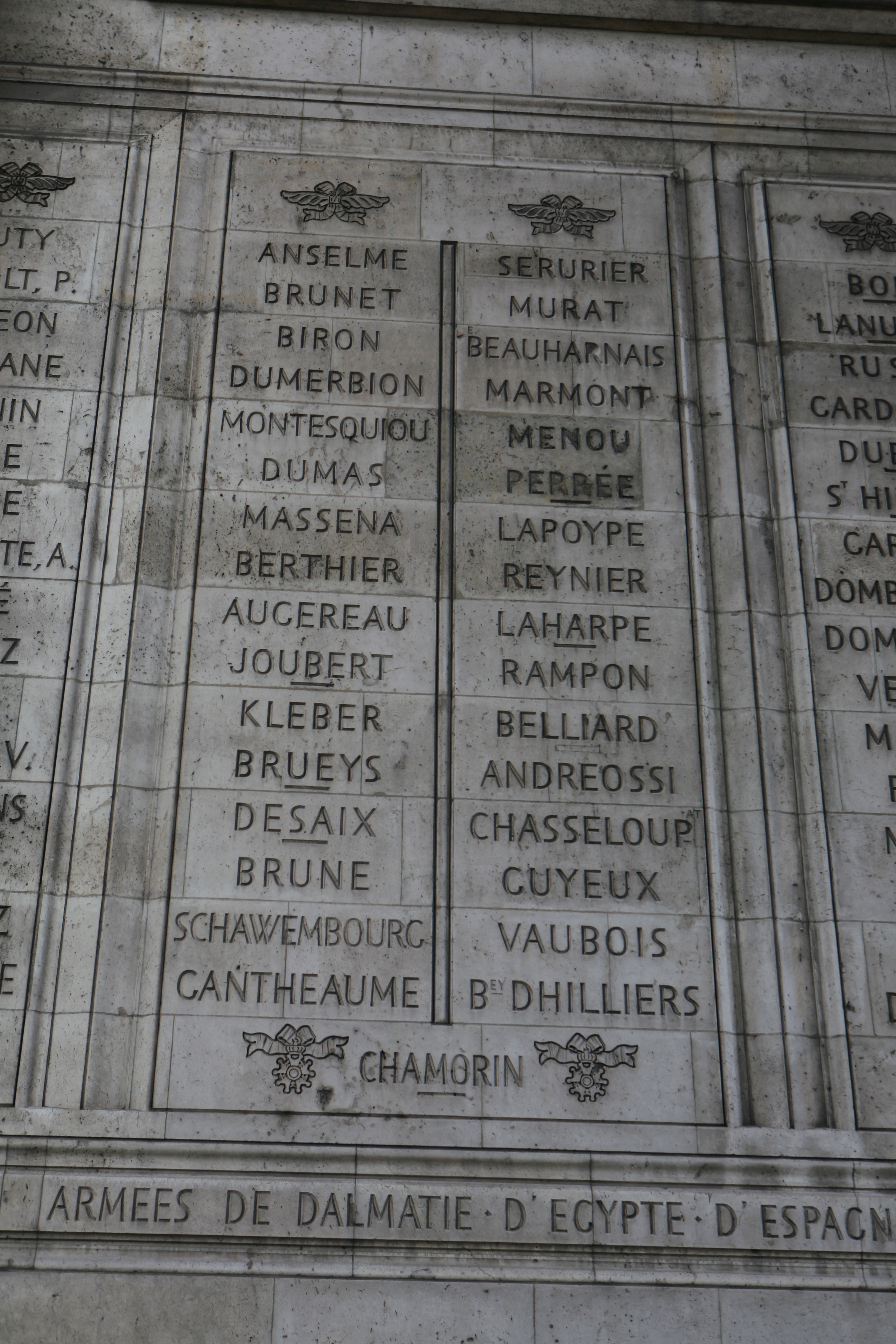 Inscriptions of the Arc de Triomphe. Southern pillar, Columns 23, 24